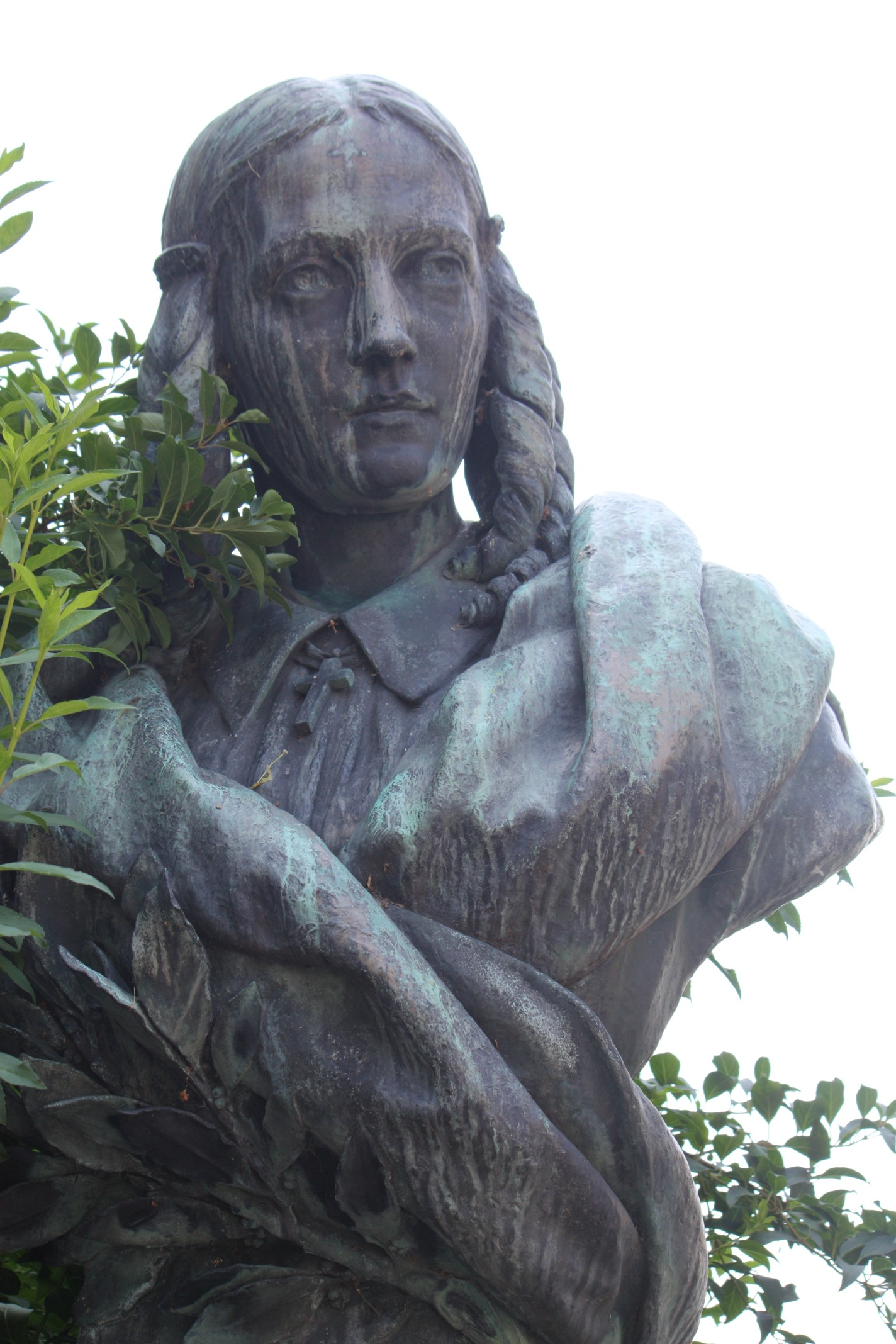 Statue of Annette von Droste-Hülshoff, German Author, 1898, outside the old castle in Meersburg, Germany